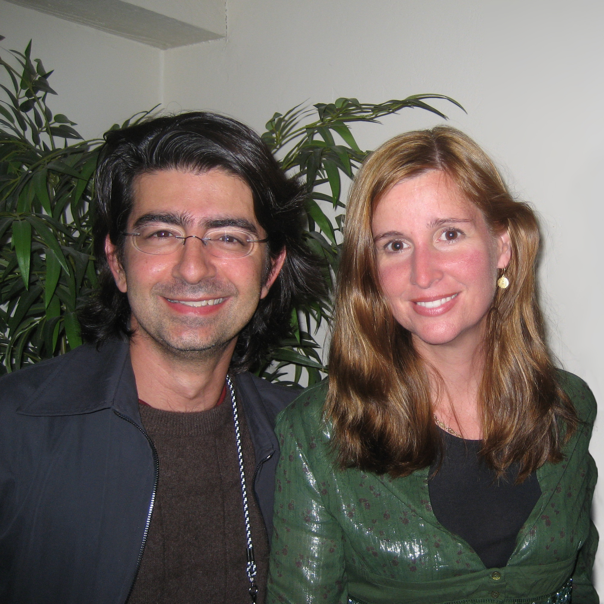 Pierre Omidyar and his wife Pam Omidyar, 2007 in Monterey, California